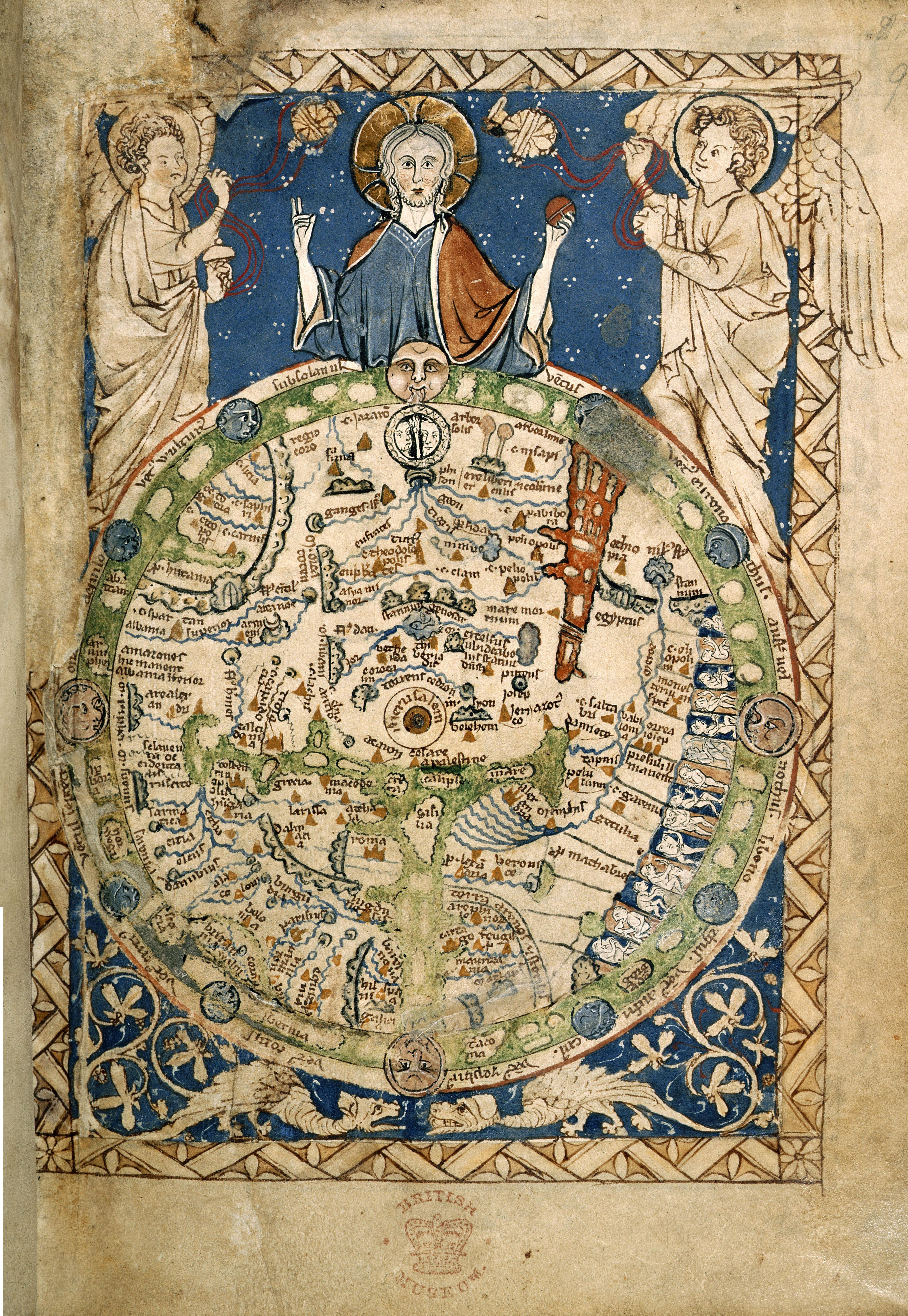 Considered one of the great medieval world maps. Probably a copy of the map that adorned King Henry III bed chamber